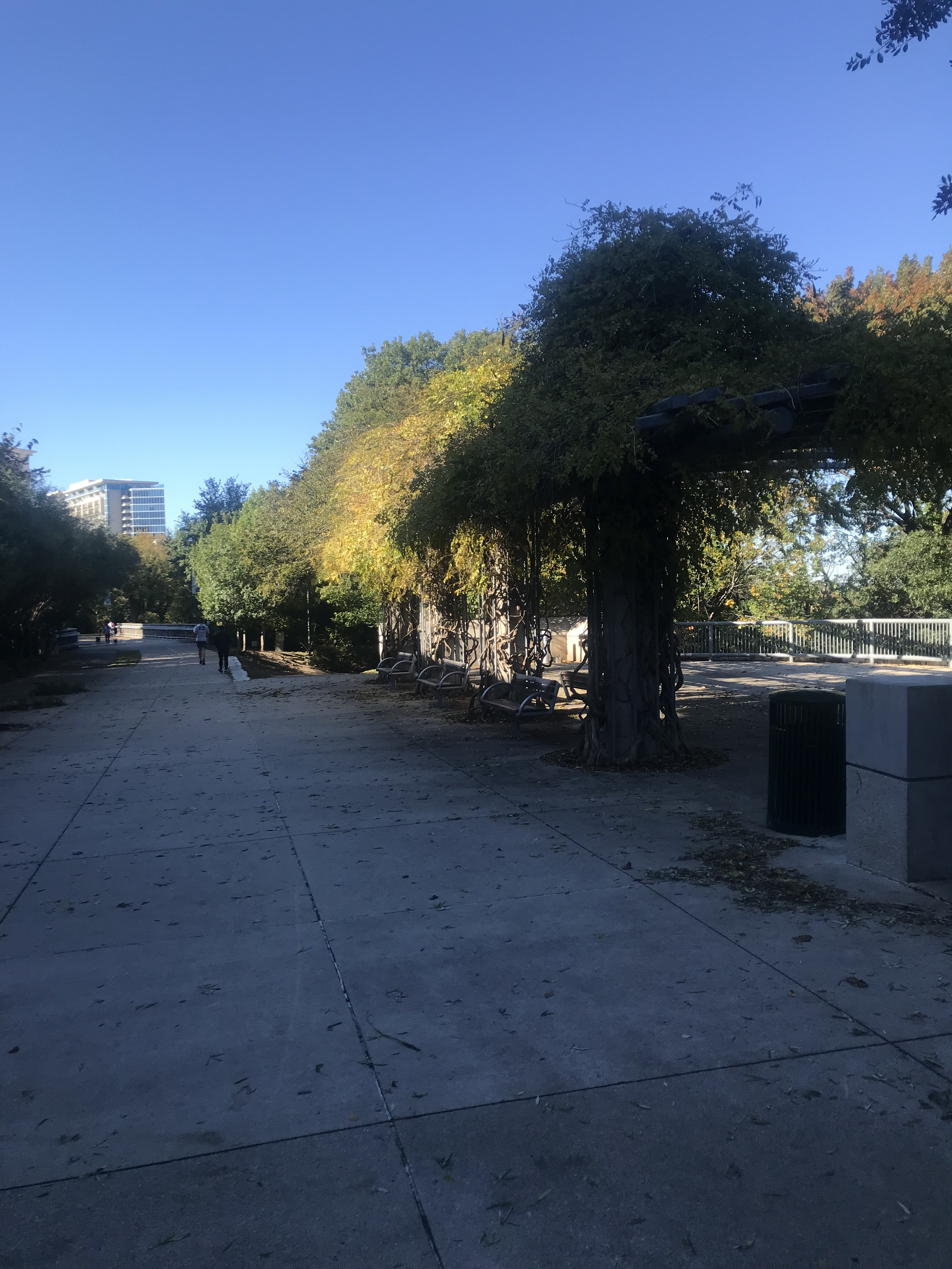 This is a photo of the Katy Trail near the border of Reverchon Park in Dallas, Texas.